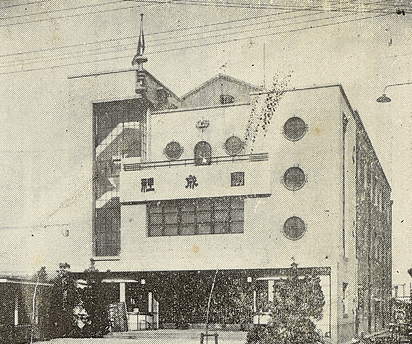 Dansungsa, c.1920